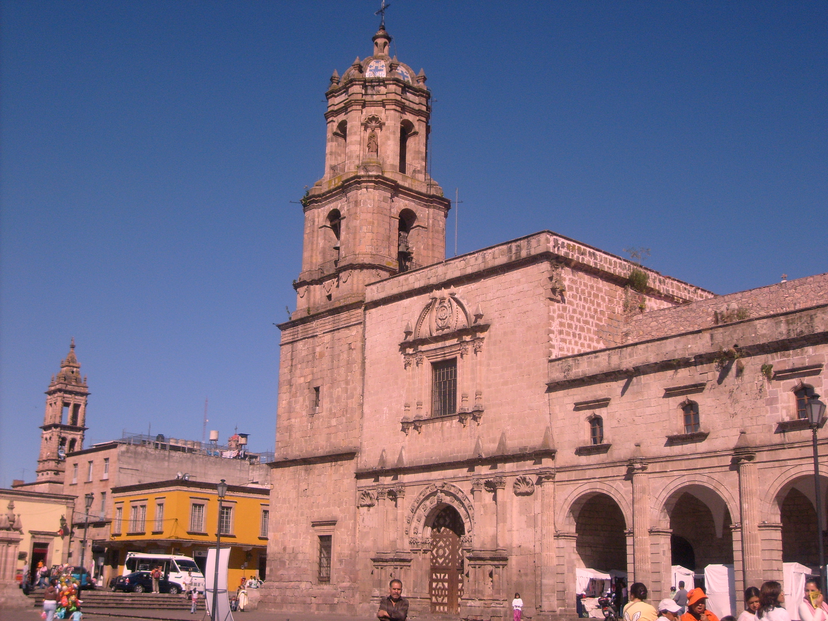 este esel templo de san francisco en la bella cuidad de morelia